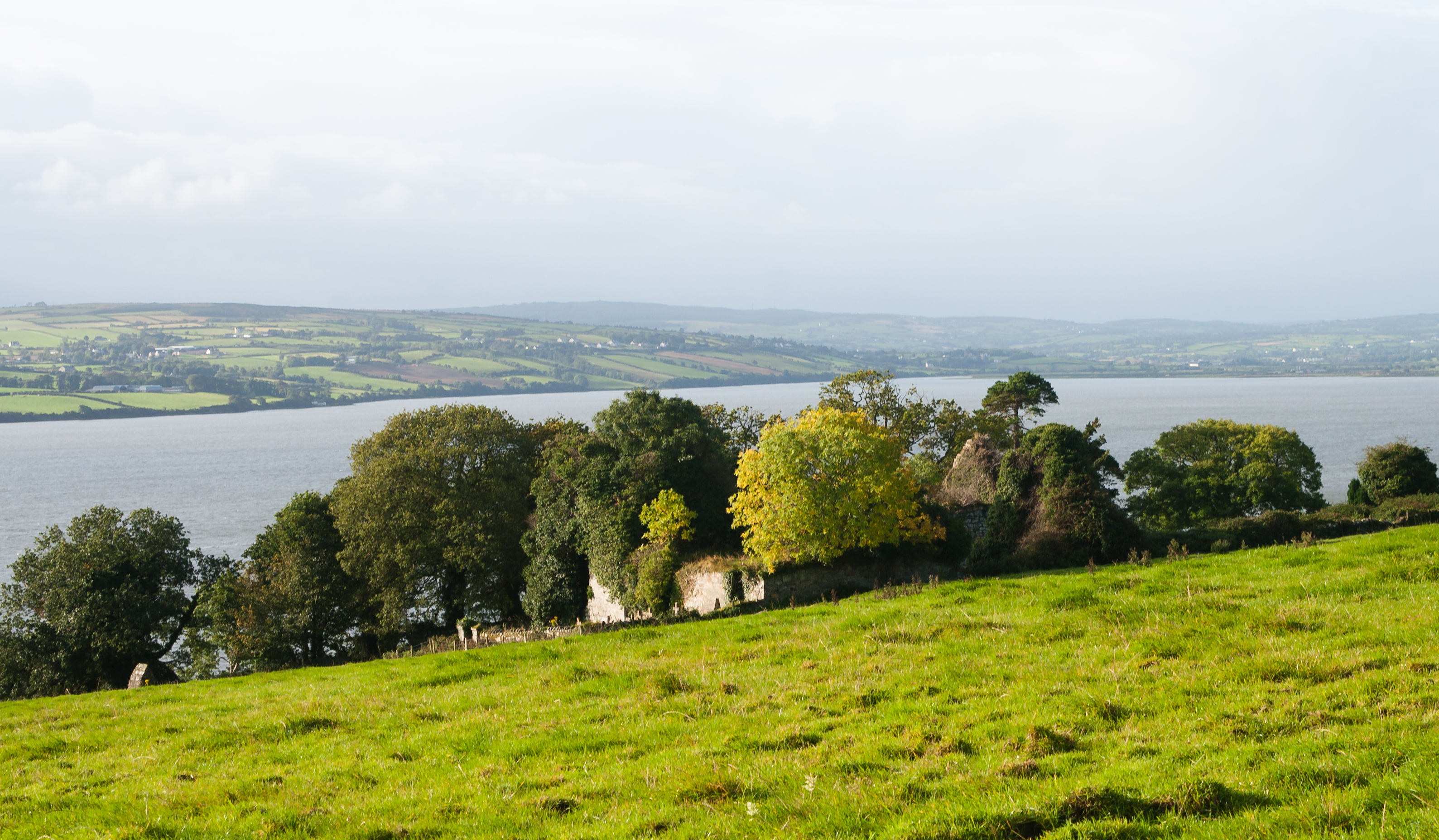 Killydonnell Friary in front of Lough Swilly, looking south.